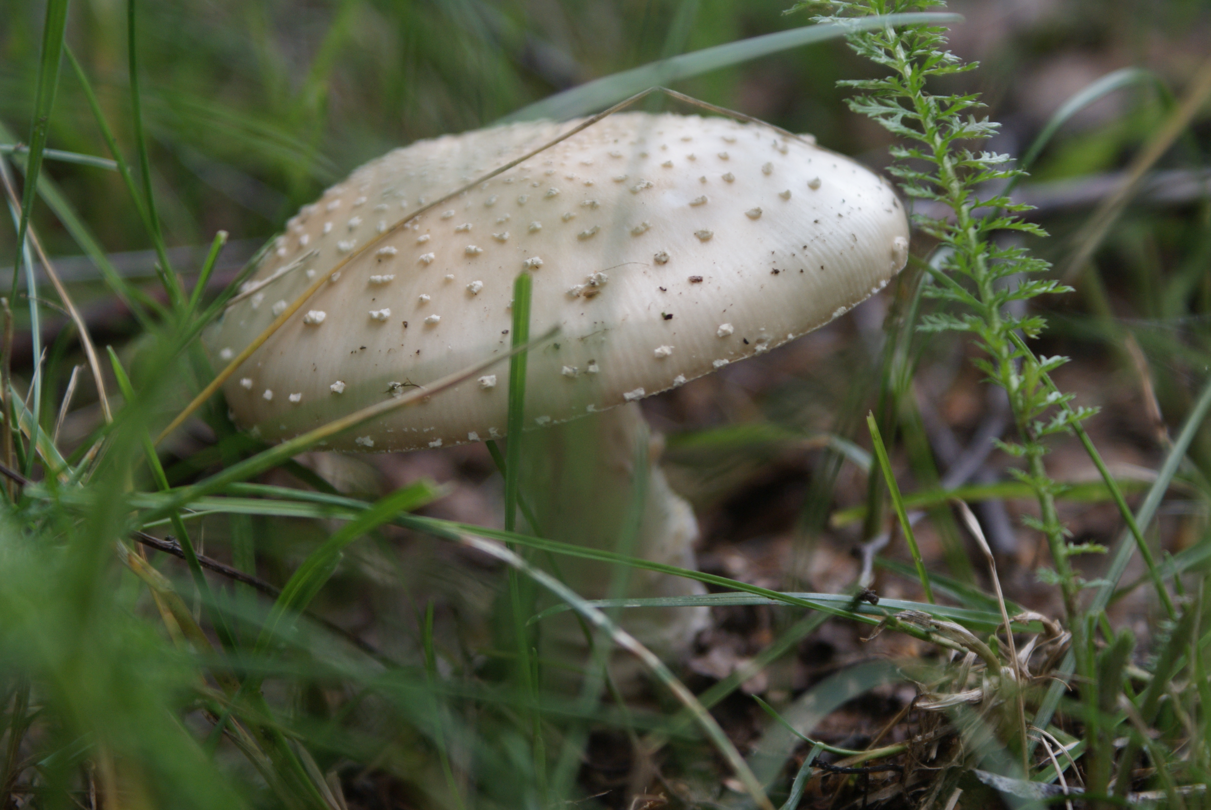 Amanita pantherina in Slavgorod, Belarus